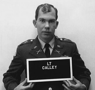 William Calley Jr. mugshot for charges involving the My Lai massacre.